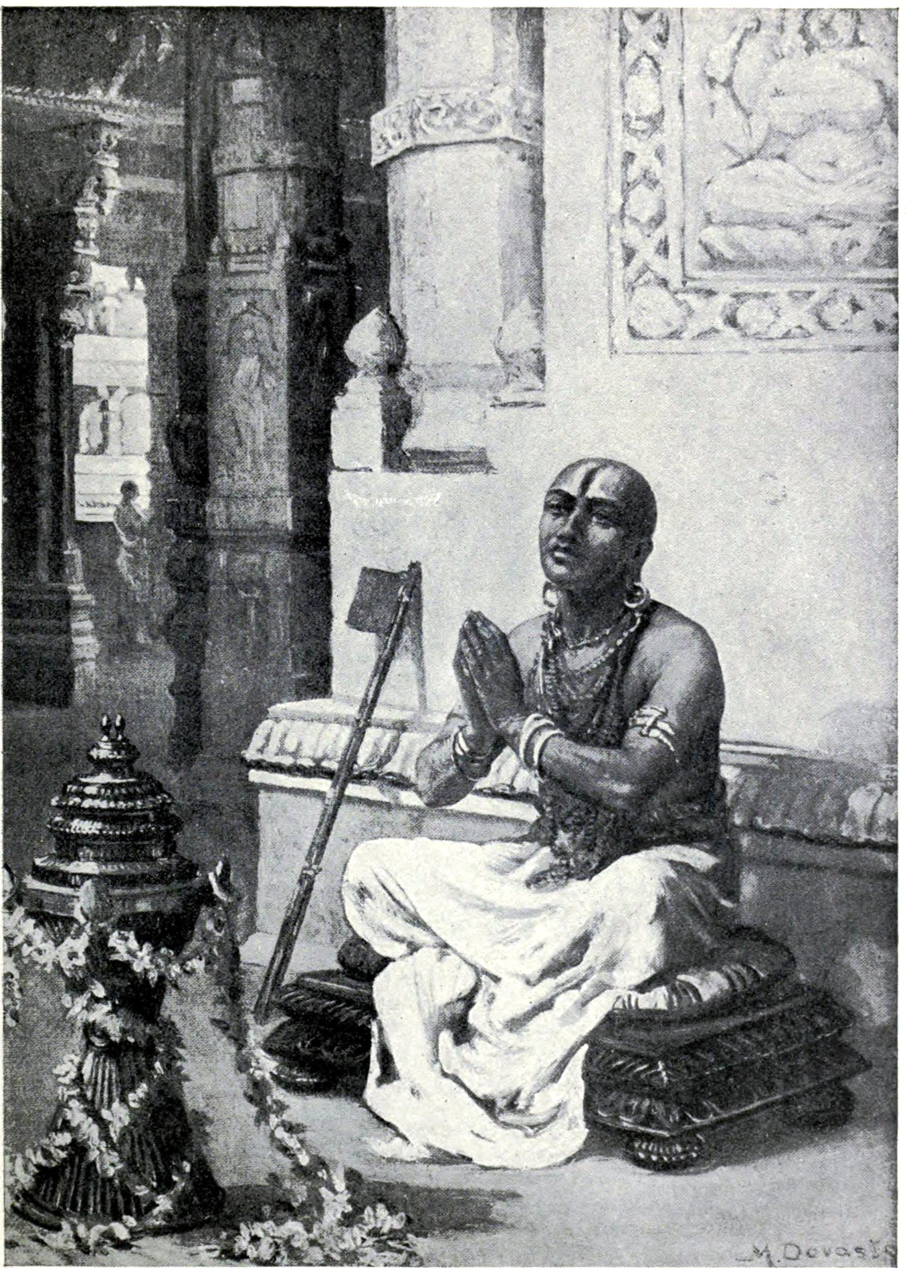 Ramanuja contemplating his philosophy of the one personal god, A.D. 1100. From Hutchinson's story of the nations, containing the Egyptians, the Chinese, India, the Babylonian nation, the Hittites, the Assyrians, the Phoenicians and the Carthaginians, the Phrygians, the Lydians, and other nations of Asia Minor.